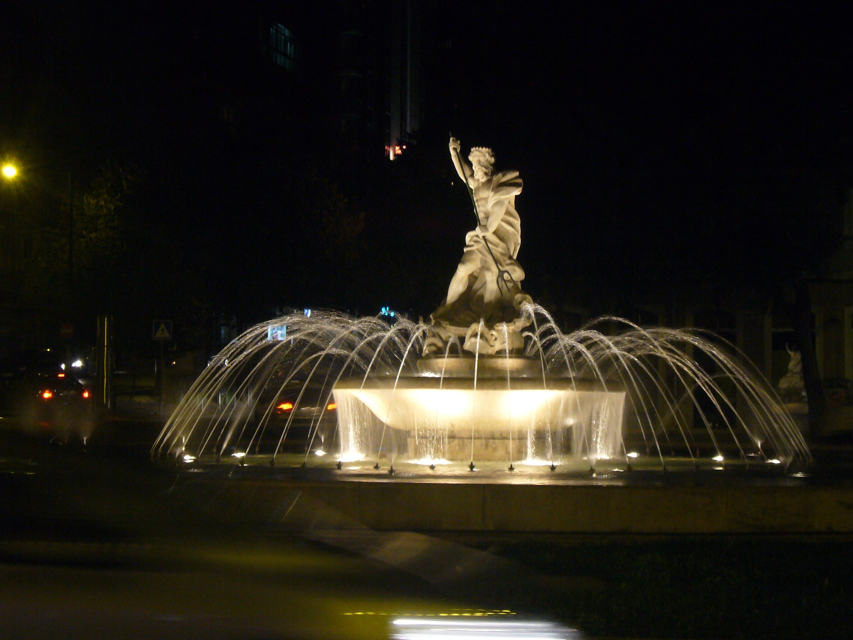 Fountain of Dª. Estefânia Square (in portuguese: Largo de Dona Estefânia) at night. In center, the statue of Neptune.